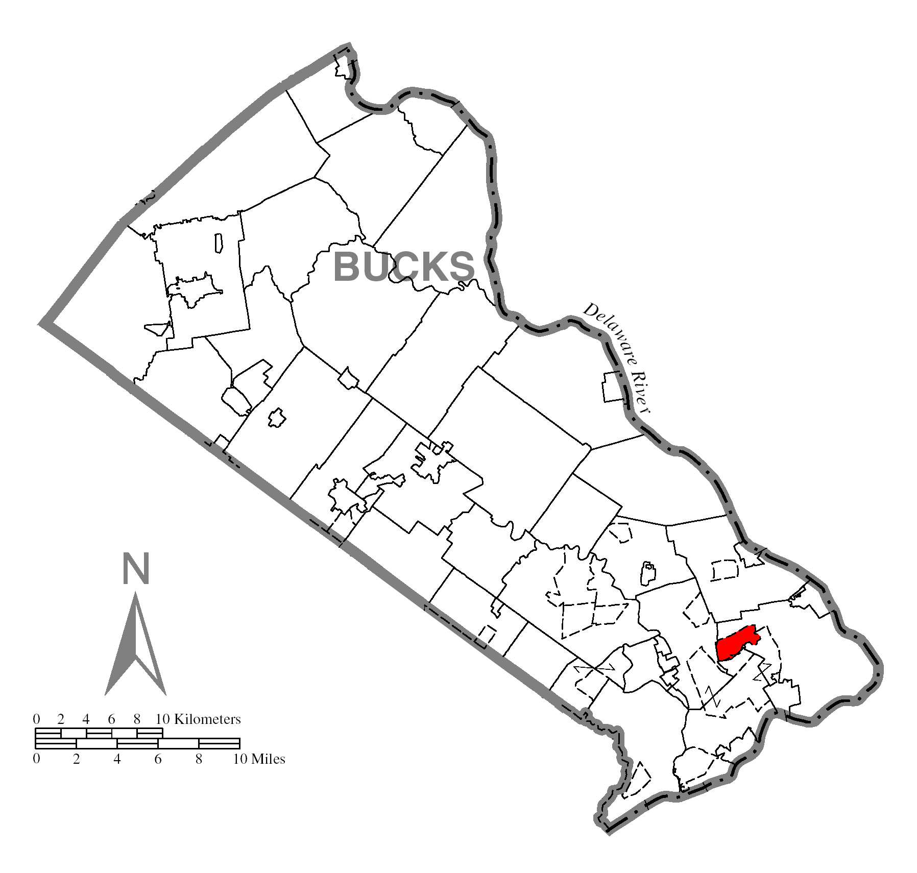 A map of Bucks County showing Fairless Hills, Pennsylvania (alternate) highlighted on the map.